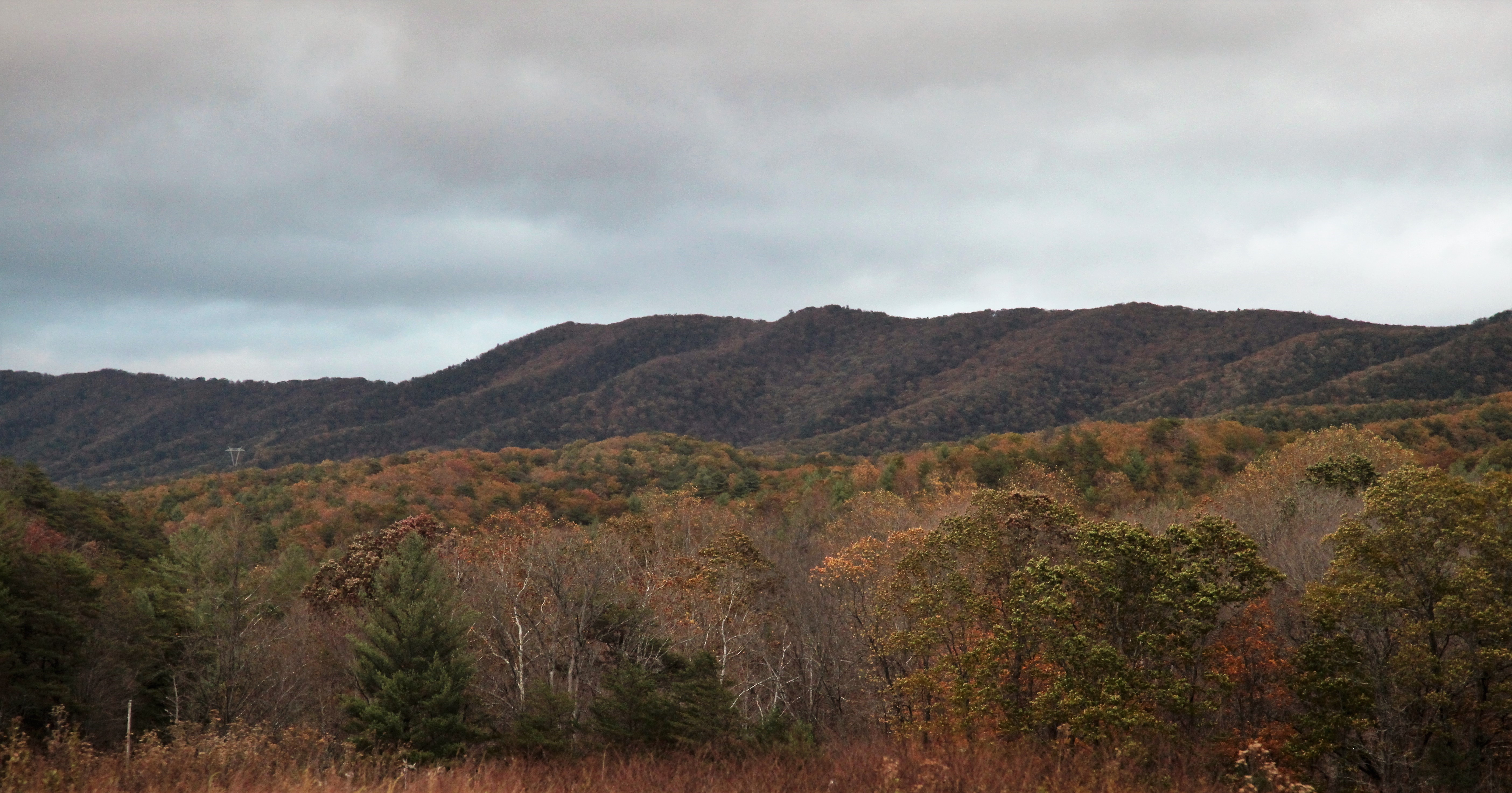 Brush Mtn, in Brush Mountain Wilderness, looking south near Caldwell Fields on Va 635